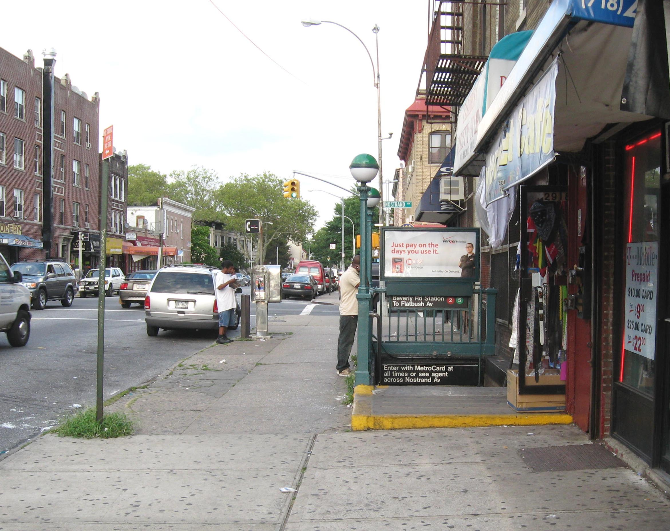 Looking east at Beverly Road (IRT Nostrand Avenue Line) southbound street stair on a sunny late afternoon